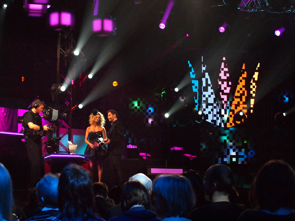 Hosts Måns Zelmerlöw and Christine Meltzer during the rehearsals of Melodifestivalen in Sandviken, Sweden